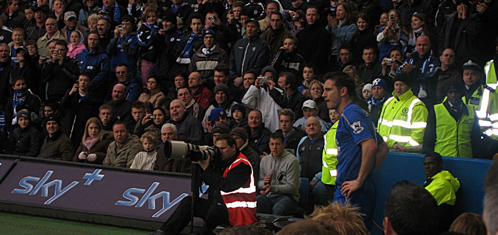 Frank Lampard, a footballer from England.